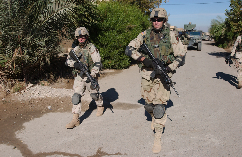 Soldiers from Alpha Company, 1-18 Infantry Battalion, 2nd Brigade, 1st Infantry Division on patrol in Iraq.